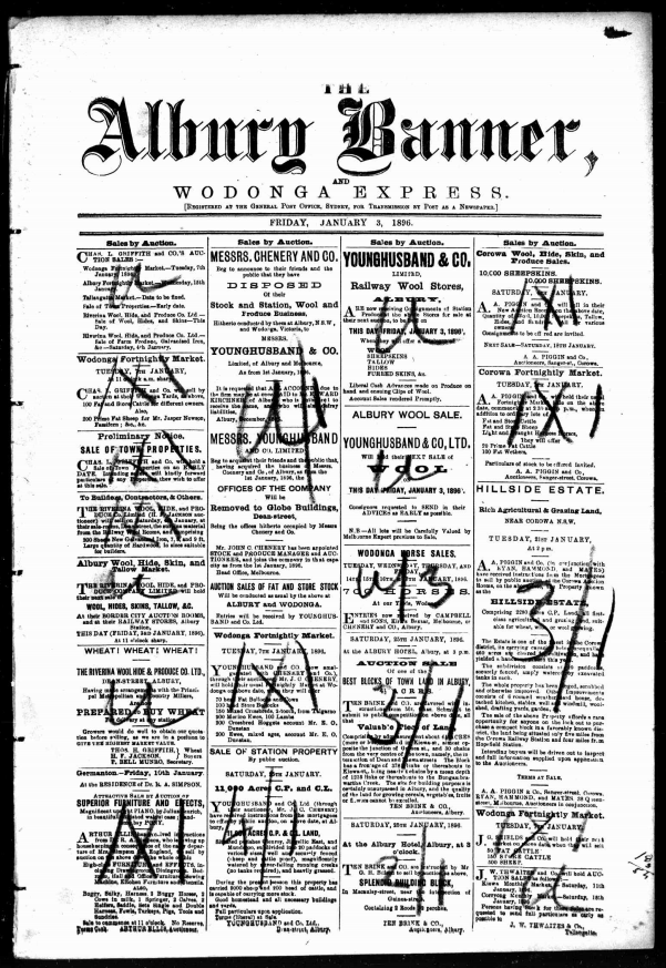 The front page of the Albury Banner and Wodonga Express on 3 January 1896.